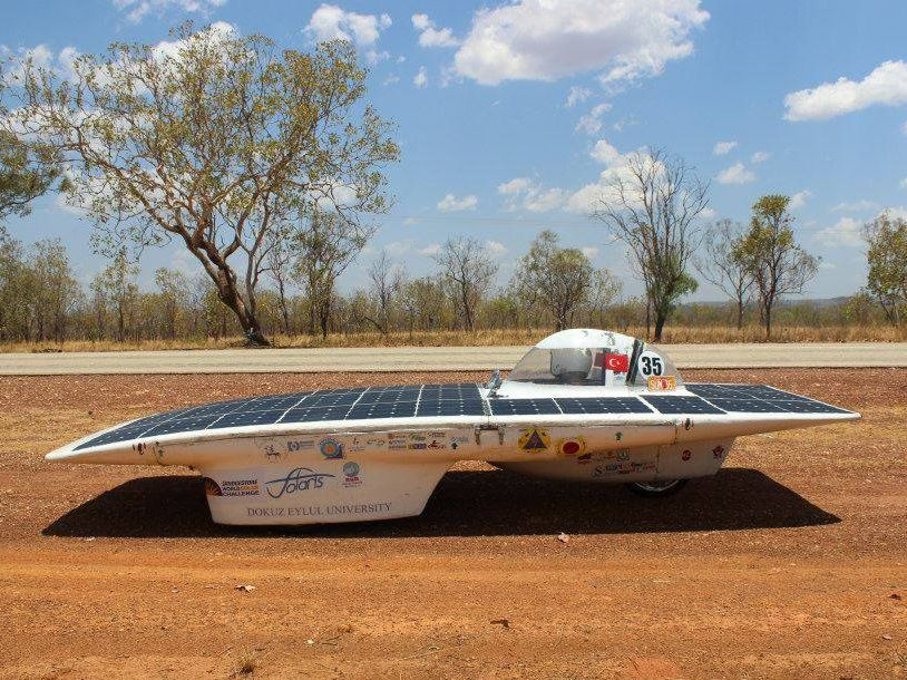 Solaris Solar Car team, S7 solar vehicle.